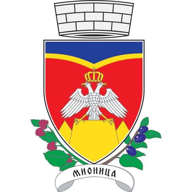 Coat of arms of Mionica (middle)